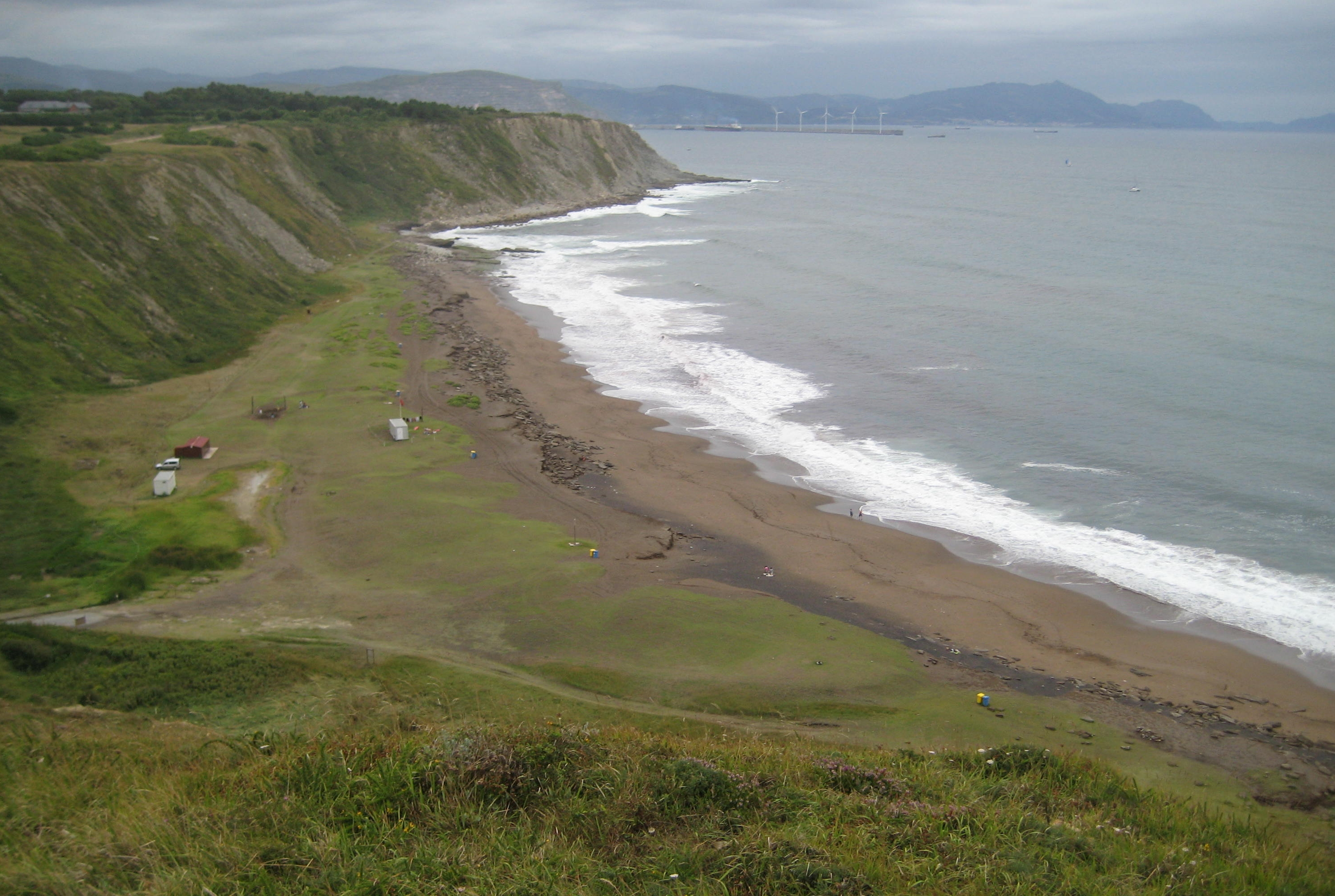 Gorrondatxe or Azkorri beach seen from Askorri / Azkorri rock, Getxo, Biscay.